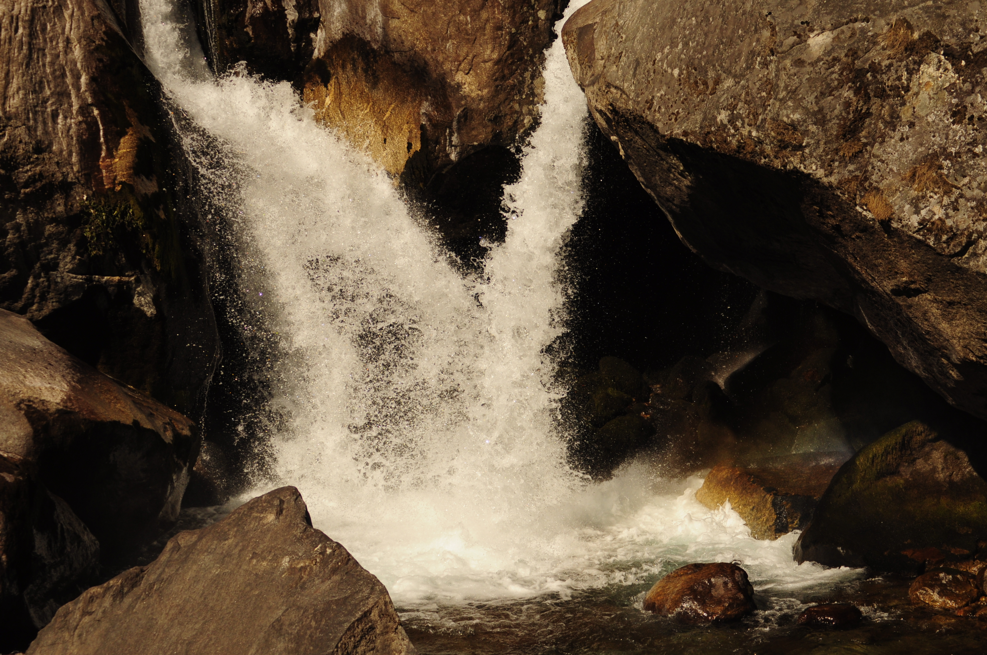 Bagmati River